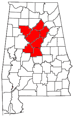 Locator map of the Birmingham-Hoover Metropolitan Statistical Area in the north central part of the U.S. state of Alabama.